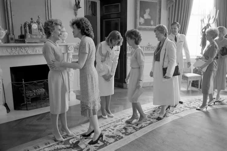 First Lady Nancy Reagan, hosting a lunch for spouses of Senators, is greeted by Elizabeth Dole in the Blue Room.